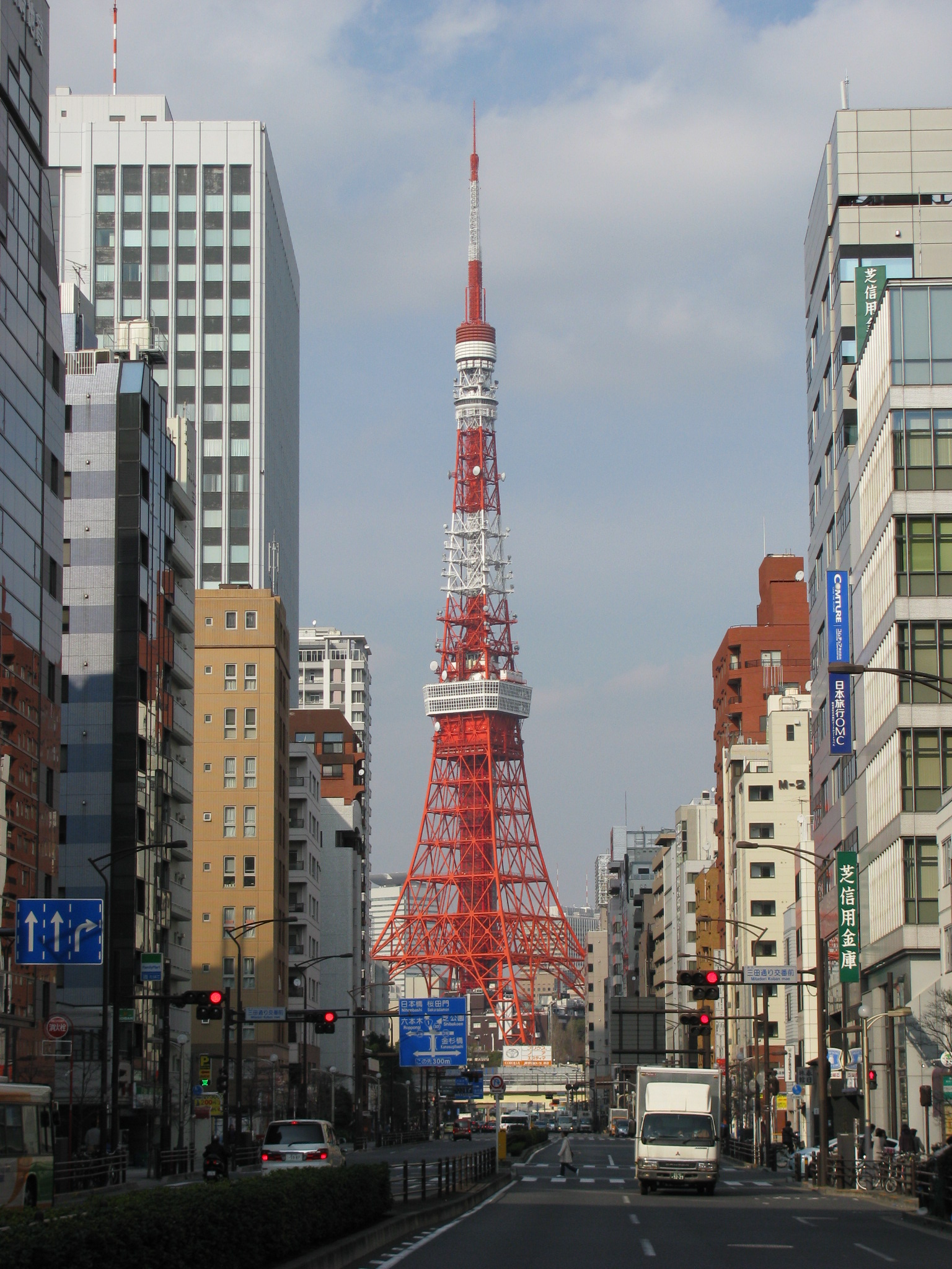 The Tokyo Tower is a communications tower, located in Minato, Tokyo, Japan.